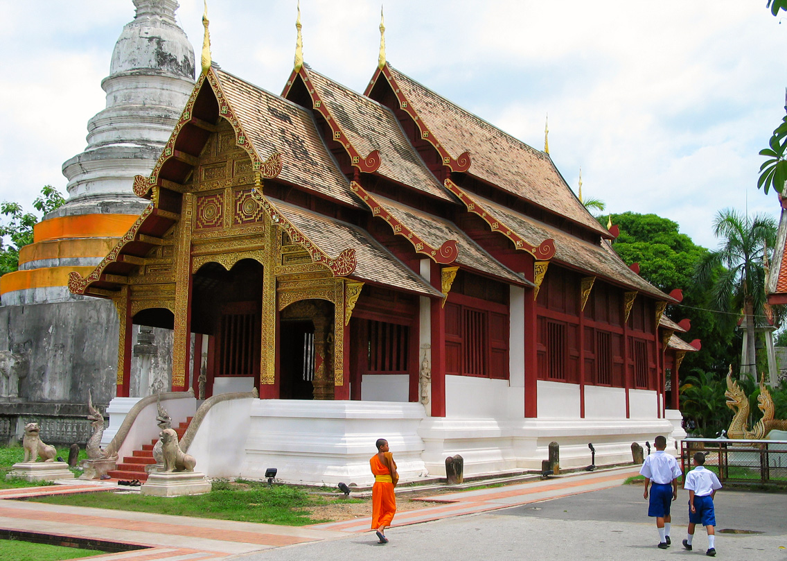 Renovated ubosot, Wat Phra Singh, Chiang Mai, northern Thailand